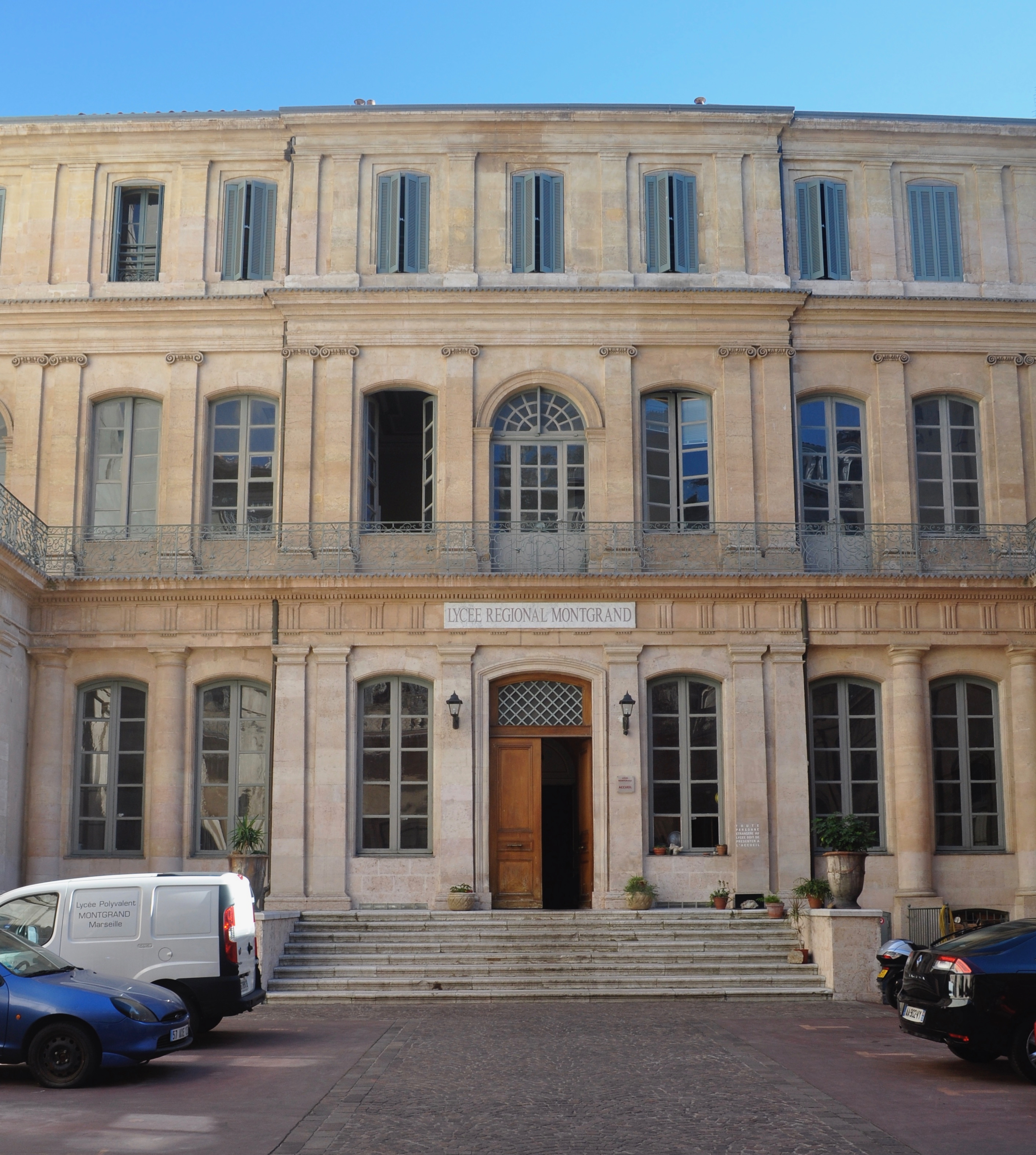 Marseille(France).L'hôtel Roux de Corse(3)